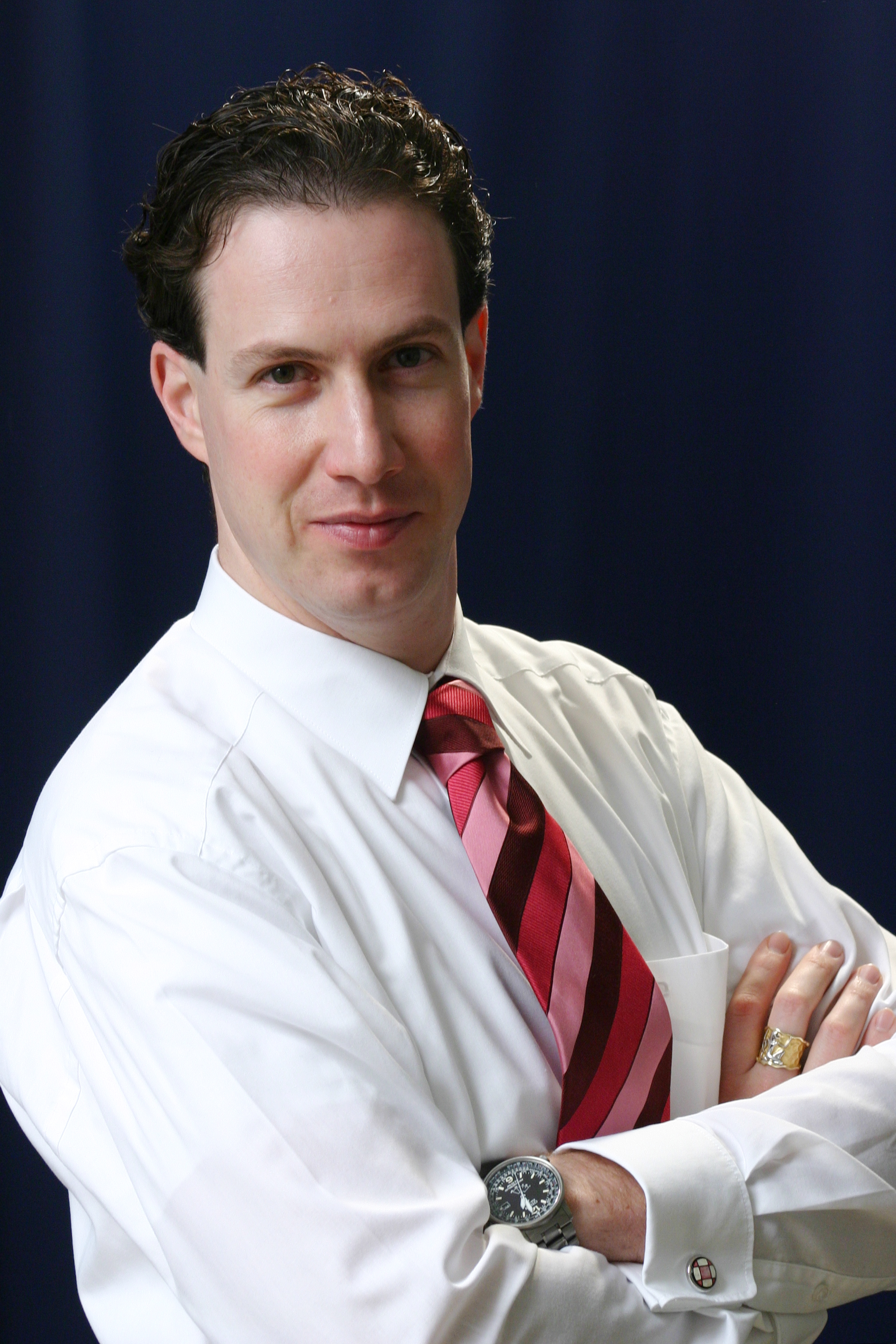 Vesselin Stoykov - General Manager & Artistic Director